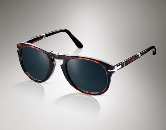 Photo of a Persol sunglasses